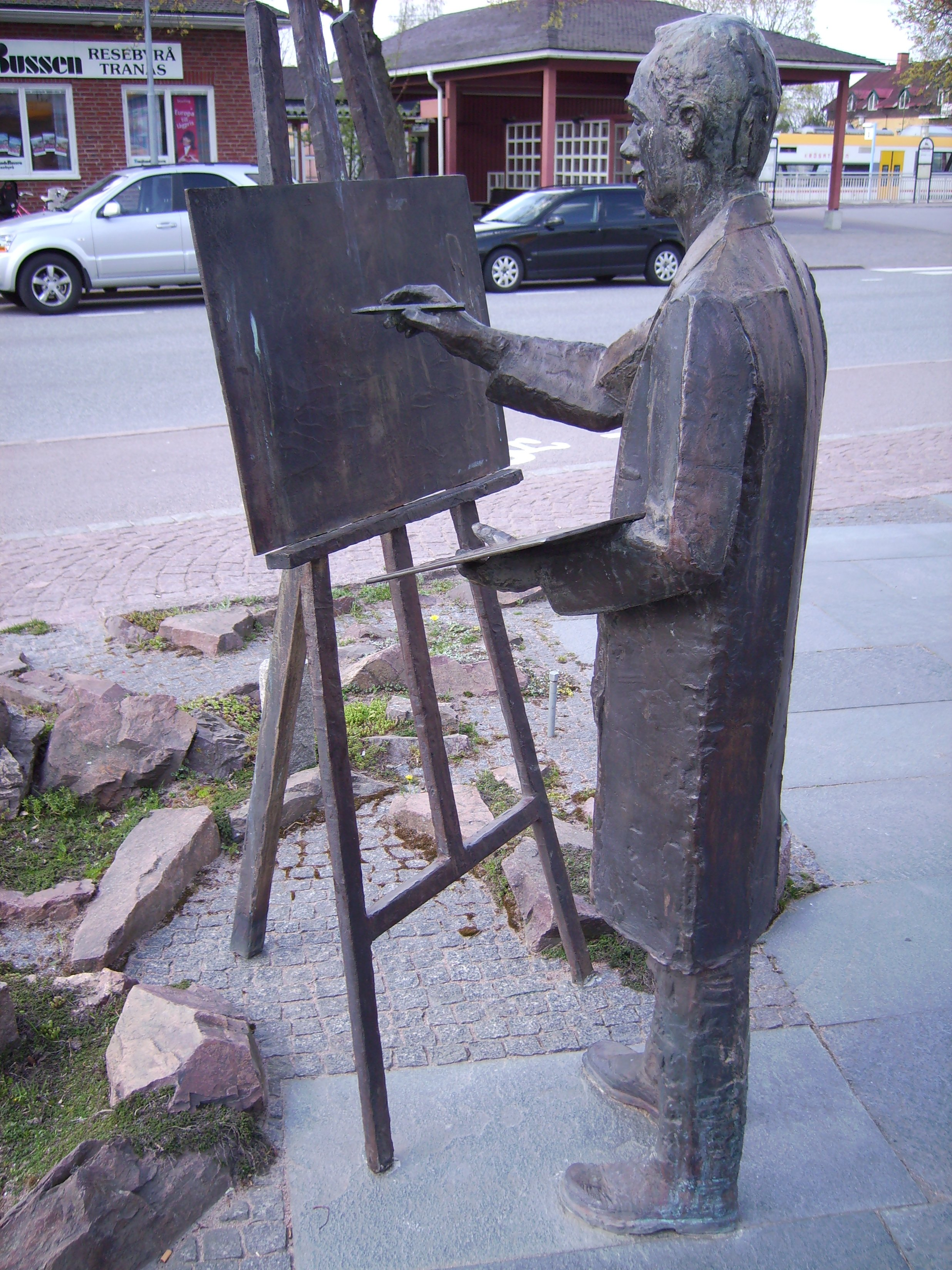 Photo by Harri Blomberg.